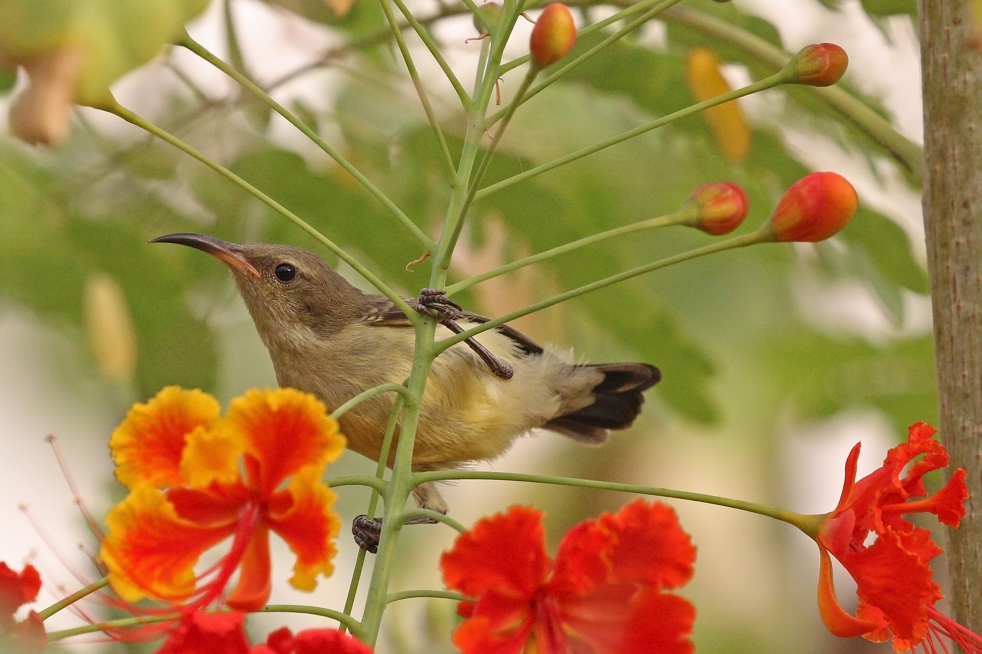 Variable sunbird (Cinnyris venustus venustus) female, The Gambia